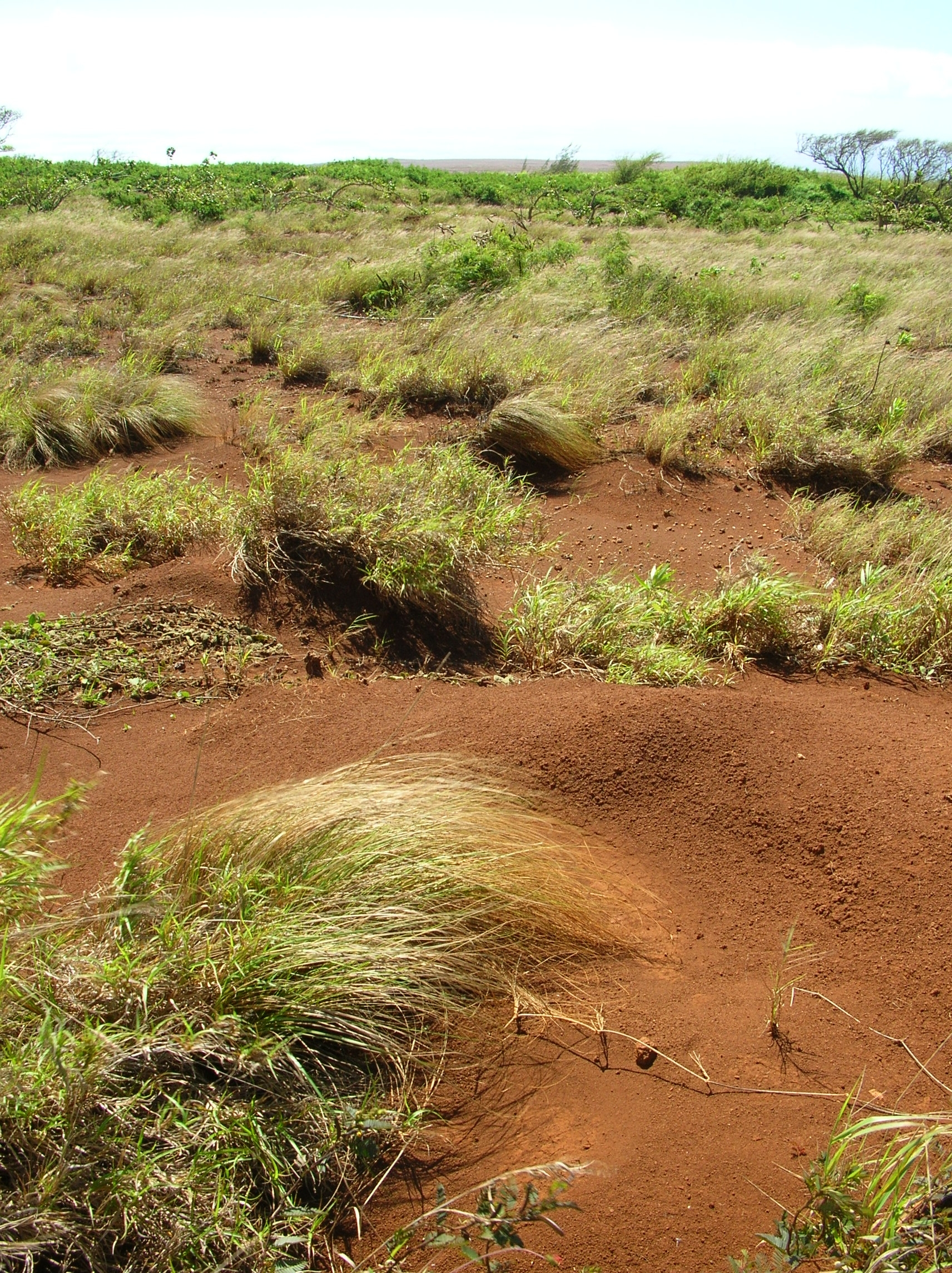 Eragrostis curvula (habit). Location: Kahoolawe, Uprange